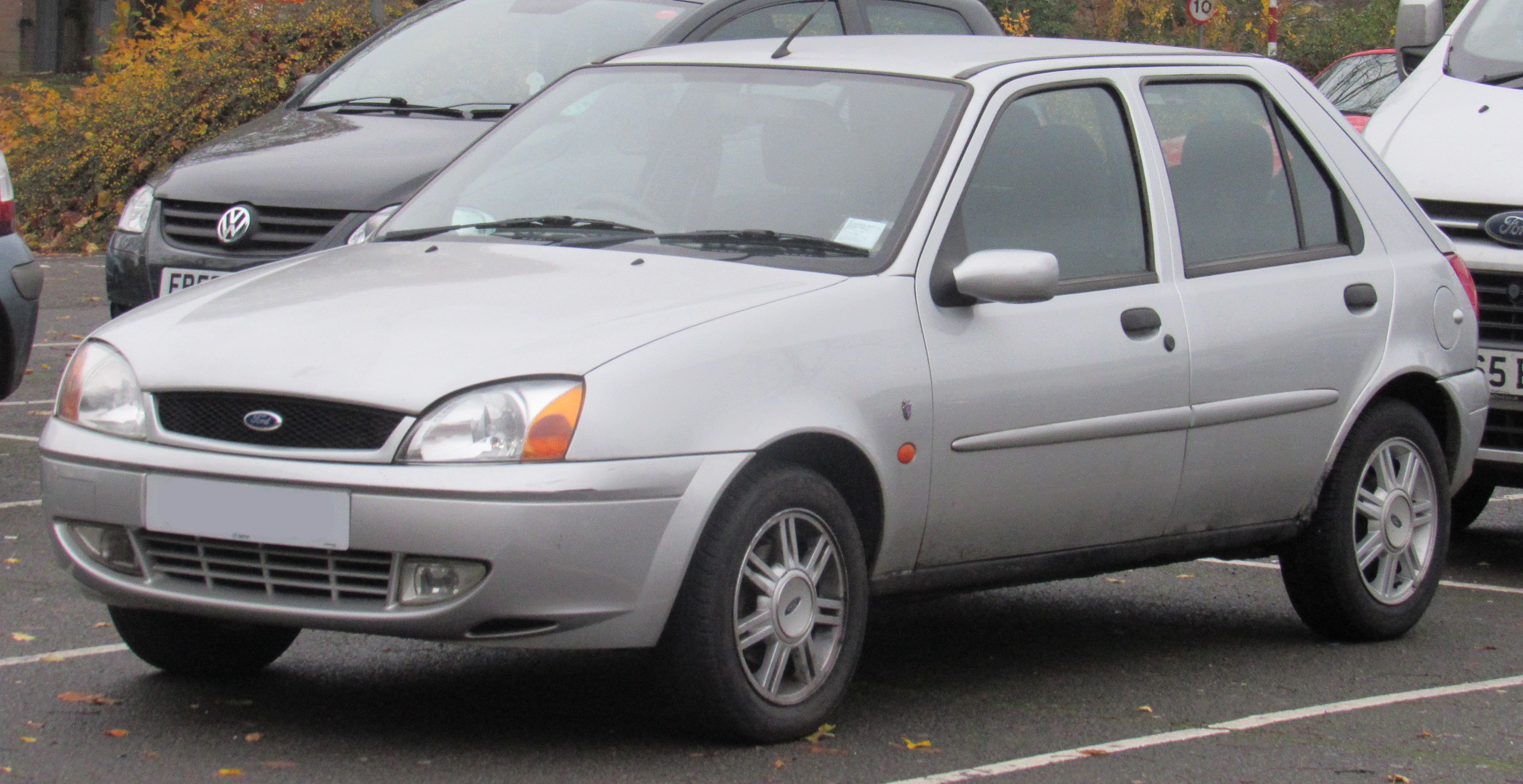 2001 Ford Fiesta Ghia 1.2 Taken in Leamington Spa